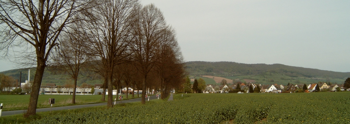 "Burgberg", with village "Bevern" in front